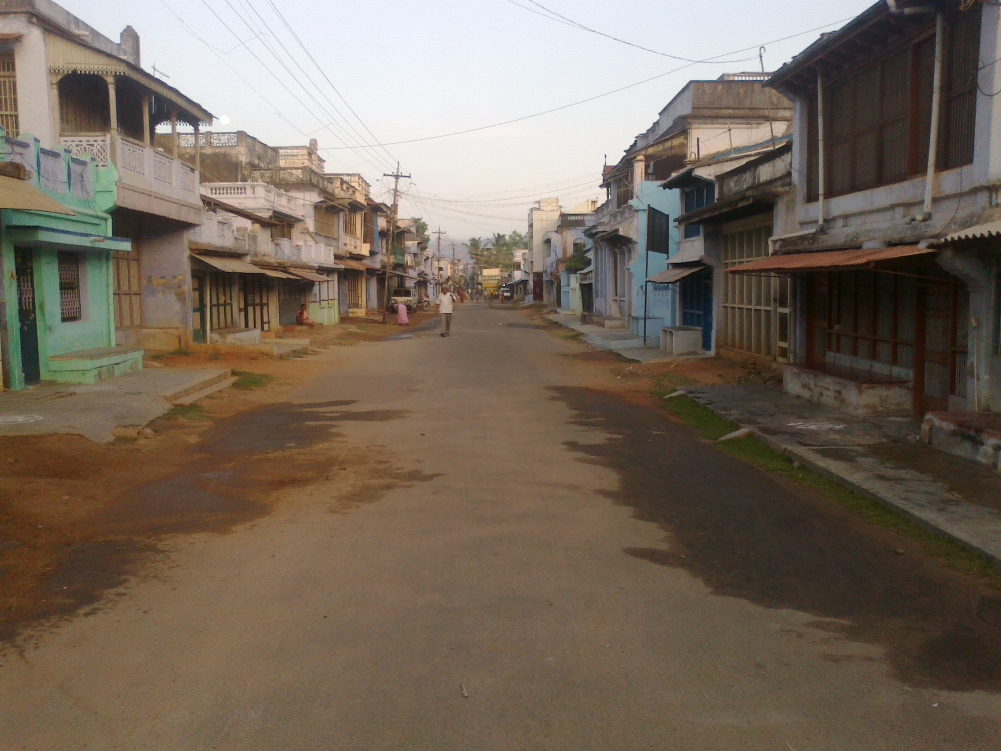 Snapped at TNVLI